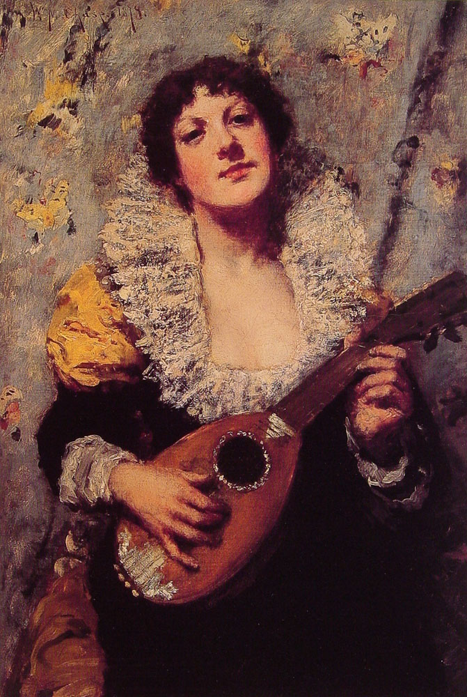 Painting by William Merritt Chase. Chase visited Italy 1877-1878 but the painting was dated 1879. A newspaper clipping notes that he had a mandolin among the props he used to make his paintings.[1]